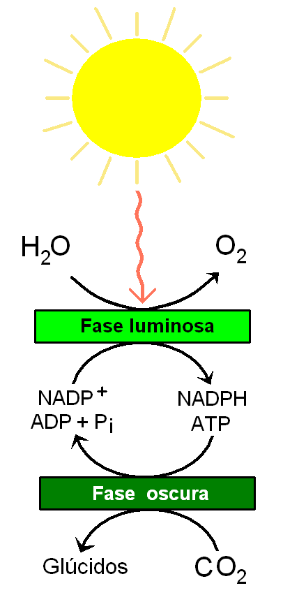 A simplified diagram of oxygenic photosynthesis.